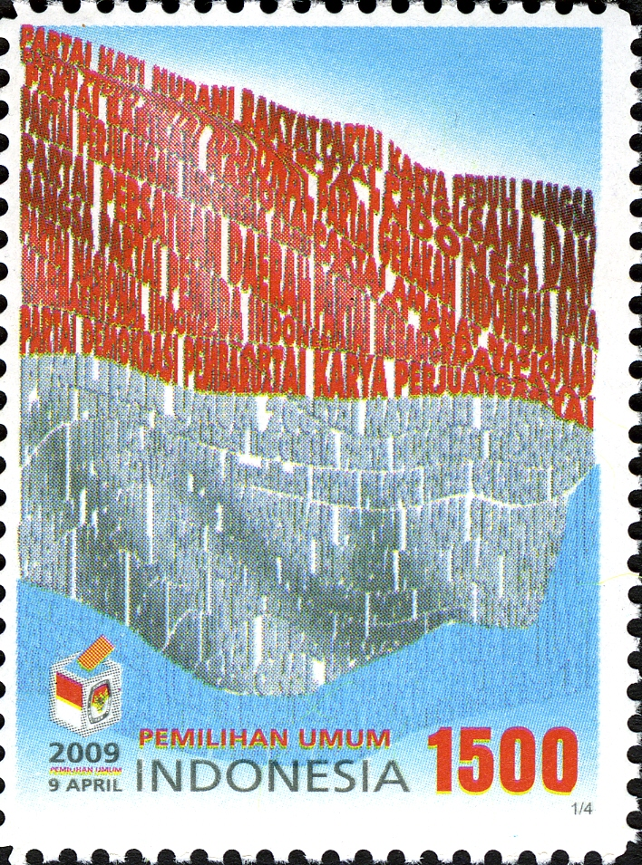 Stamps of Indonesia